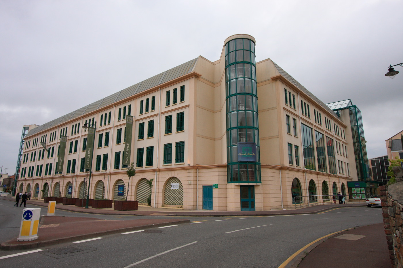 Supermarket near Gas Place, in St. Helier, Jersey.